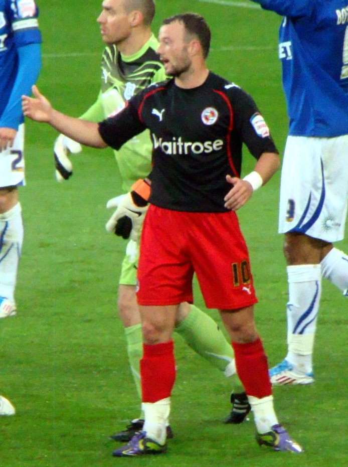 Noel Hunt from 17/05/11 - Cardiff V Reading, Championship Semi-Final 2nd Leg, Cardiff City Stadium, Cardiff, Wales